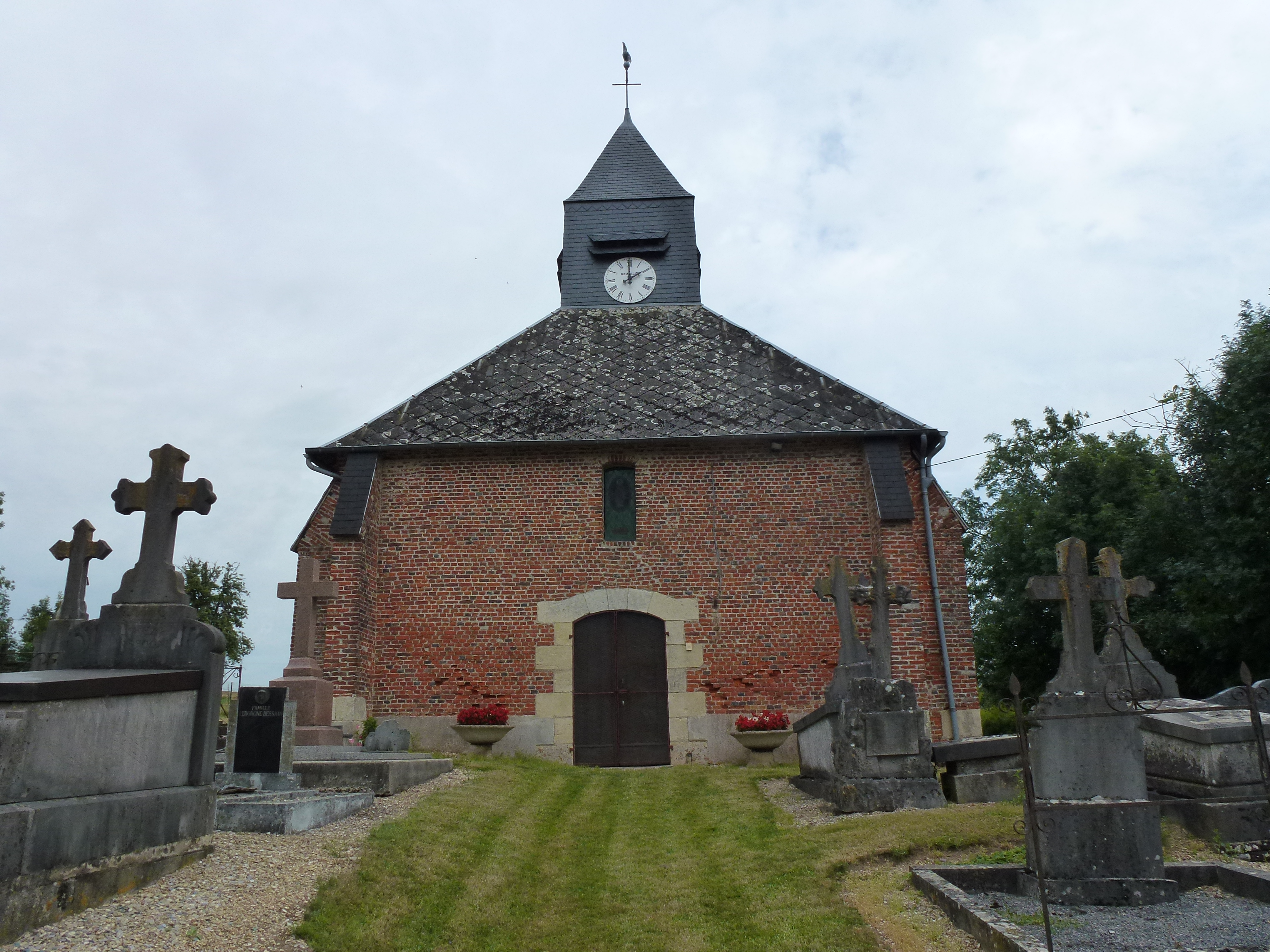 Vaux-lès-Rubigny (Ardennes) église Saint-Sébastien